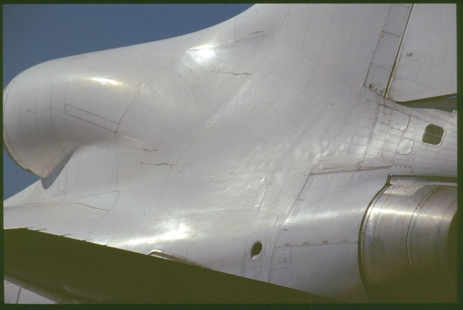 S Duct detail from L-1011